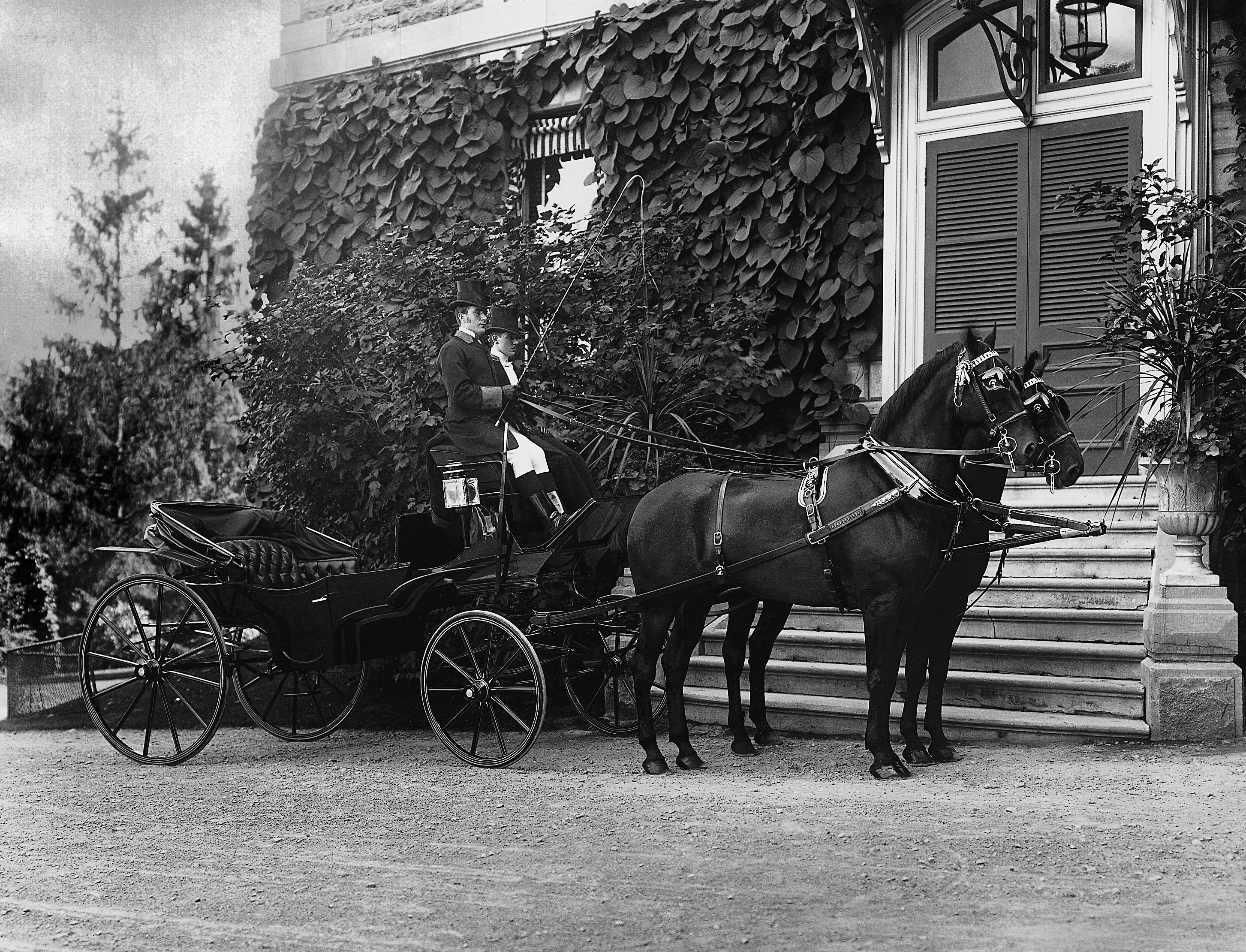 Carriage outside Andrew Allan's house, Montreal, 1901. Taken by Notmans, held at the McCord Museum, Montreal